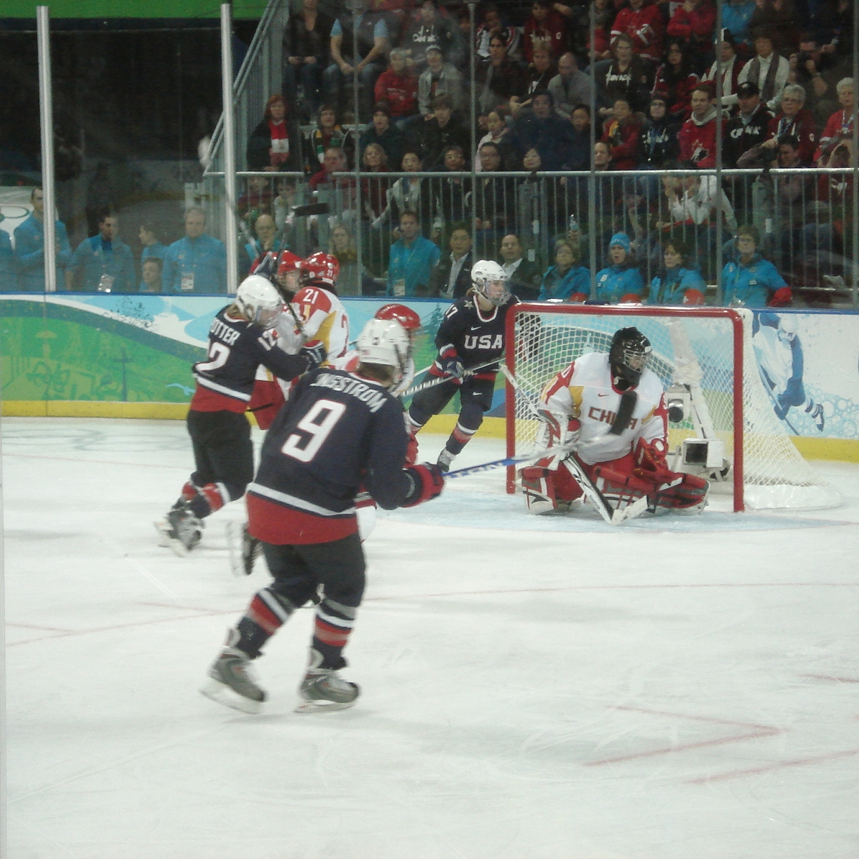 The US Women's Ice Hockey team takes on China at the 2010 Winter Olympics in Vancouver. The US won 12-1.